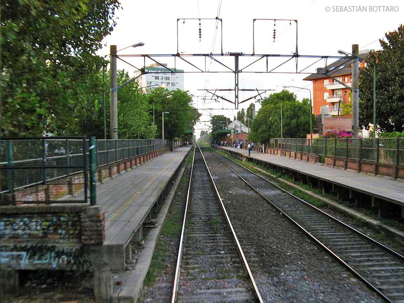 Adrogué Train Station